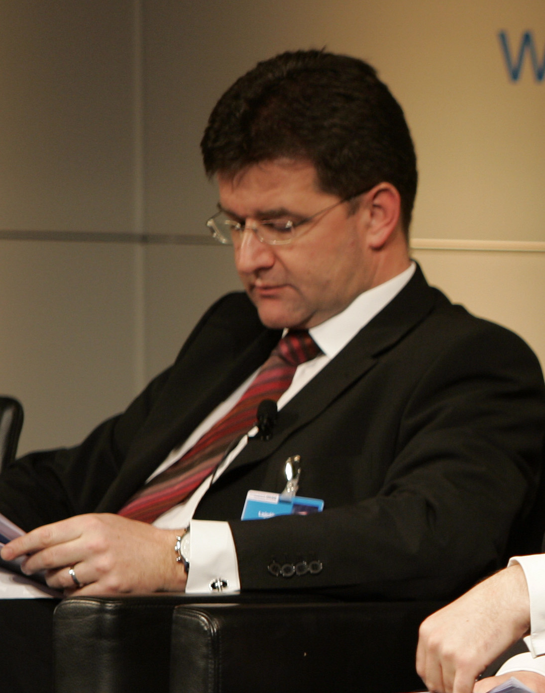 45th Munich Security Conference 2009: Dr. Miroslav Lajčák (le), Minister od Foreign Affairs, Republic of Slovakia.